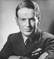 John Cunningham RAF; night fighter ace wartime portrait.